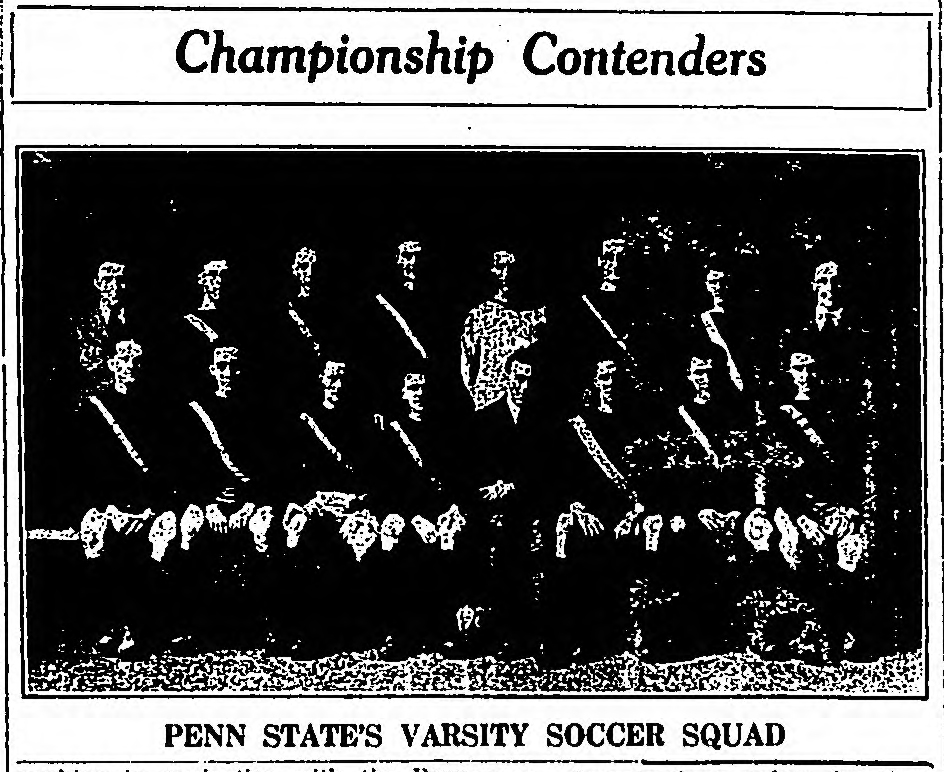 1922 Penn State Varsity Soccer team photo published in The Daily Collegian